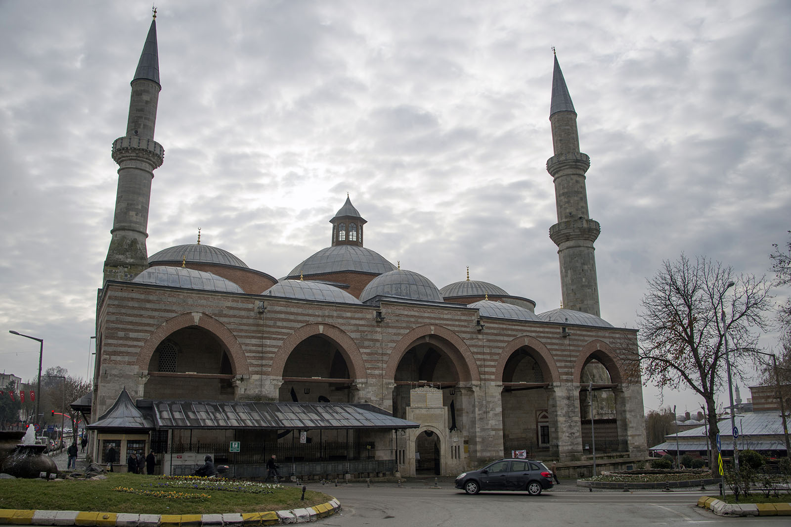 In the middle the main entrance, to its left a covered ablutions area.